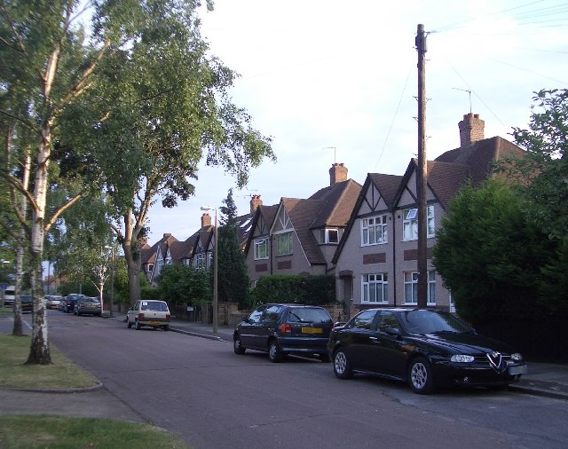 30s Houses on "Whitton Park" The area is still referred to as Whitton Park. The Houses were built on what used to be Whitton Park and Whitton Park House (the mansion of the Gostling family). Whitton Park House was demolished in 1911 after the estate was sold for development.